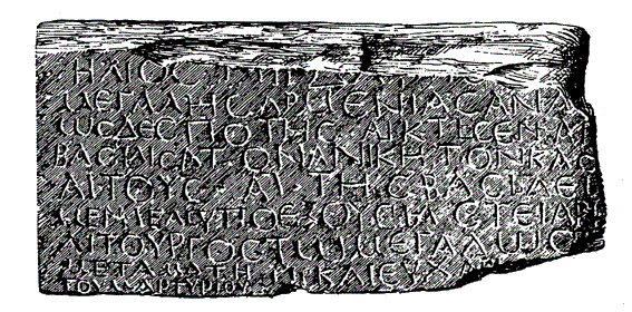 A Greek inscription on a basalt stone found on the fortress hill of Garni, indicating that the monument was built by Tiridates I of Armenia, in 77 A.D Source: The image is fromHistory of Armenia by Vahan M. Kurkjian, a publication in the public domain. A History of Armenia by Vahan M. Kurkjian was first published in 1958 by the Armenian General Benevolent Union of America. The text, actually taken here from the 1964 reprinting, is in the public domain since the 1958 copyright was not renewed at the appropriate time (1985‑1986), and the work has therefore fallen into the public domain. From [1] 1 ήλιος [.Δ..............................] μεγάλης Αρμενιας ΑΝΑ[-.................] -]ΩΣ δεσπότης αίκτισεν ΑΡ[-.....] βασίλισα, τον ανίκητον ΚΑΘ[-...........] 5 αίτους ΑΙ [?] της βασιλεί[ας.] -]MENIEΑΣ υπό εξουσίας ΤΕΙΑΡΙ[.......] λιτουργός τω μεγάλω θ[εώ?..............] μετα .MATH..illegible και ευχα[ίς?......] του μαρτυρίου.....lacuna...............] Translation 1 Sun [...................................] of great Armenia ANA[-..................] -]ΩΣ the overlord built AΡ[-..........] queen, the invincible ΚΑΘ[-.............] 5 in the [numerical?] regal year[.....] -]MENIEAΣ under the rule TEIAΡΙ[......] servant to the great g[οd?..............] obscure meaning...........................] of the testimony [lacuna................]